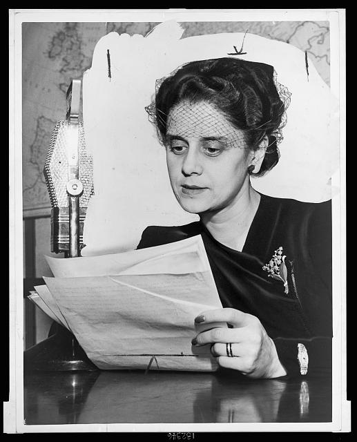 Lisa Sergio, head-and-shoulders portrait, seated at table with microphone, facing front, holding papers